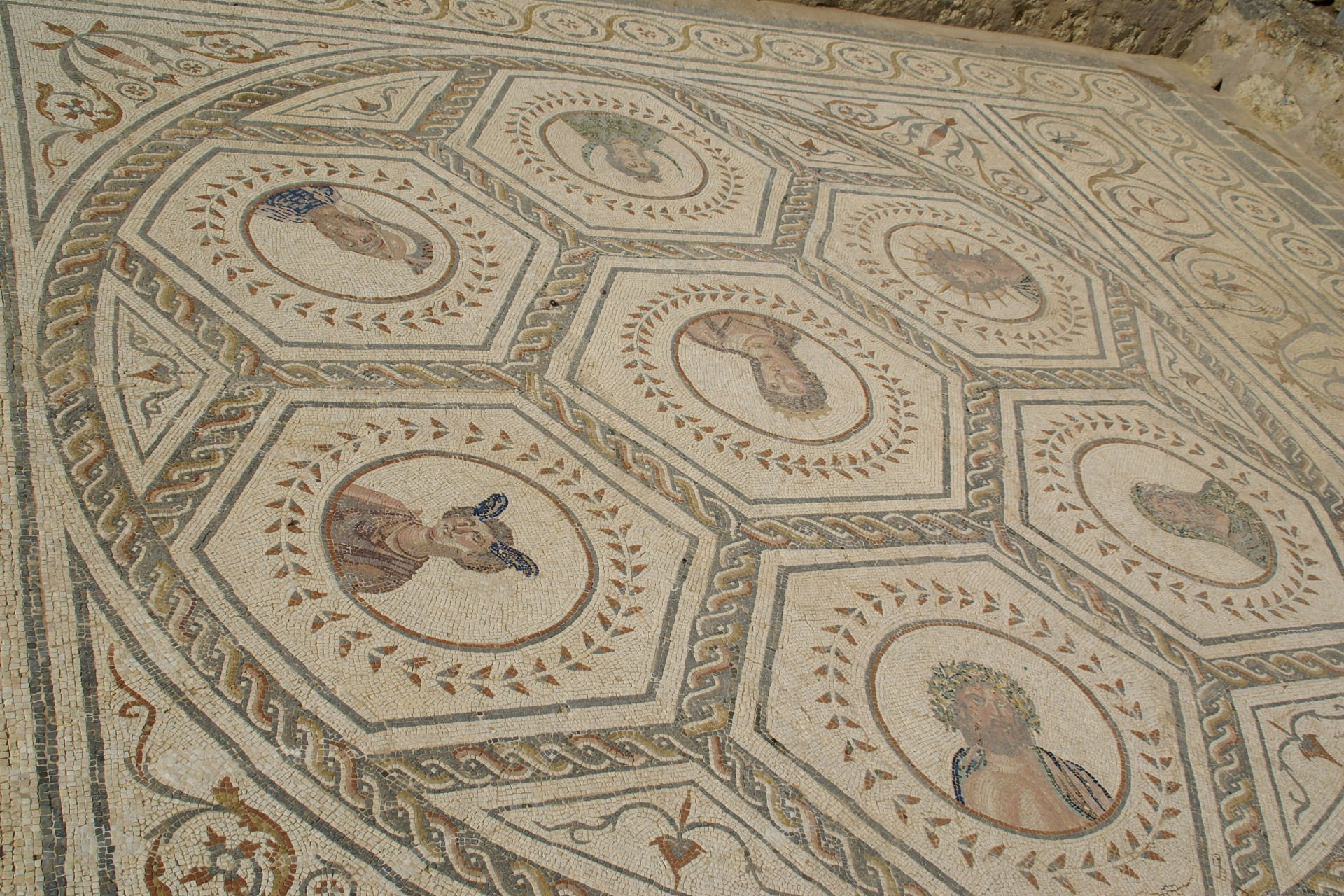 Mosaic of the planets in Itálica, Spain